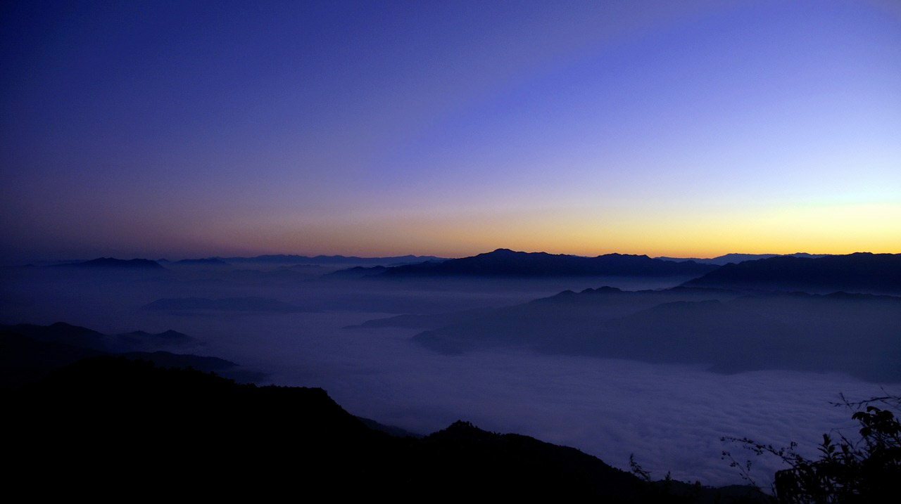 Blue Mountain National Park, Mizoram